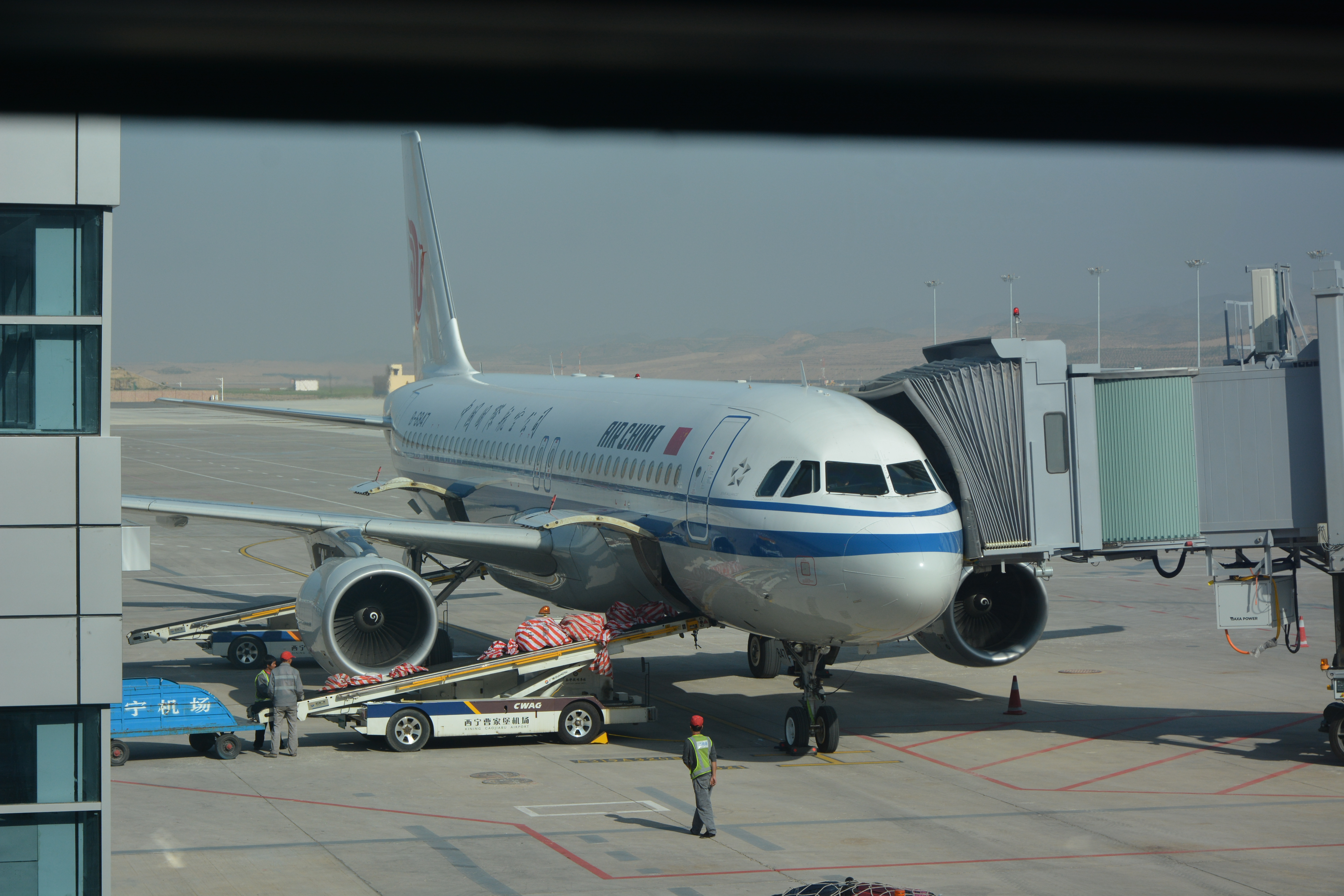 An Airbus A320 in Xining Caojiabao Airport